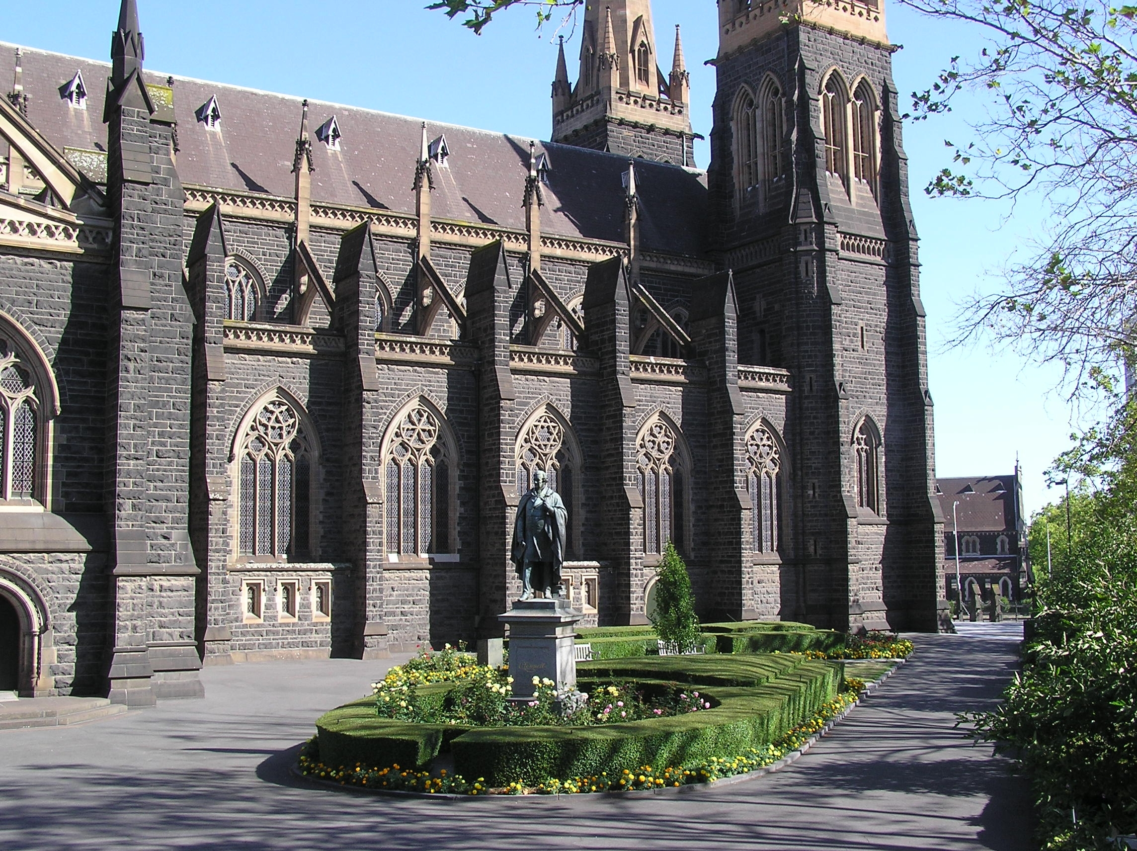 St Patrick's Cathedral - Irish Nationalist Leader Daniel O'Connell Statue